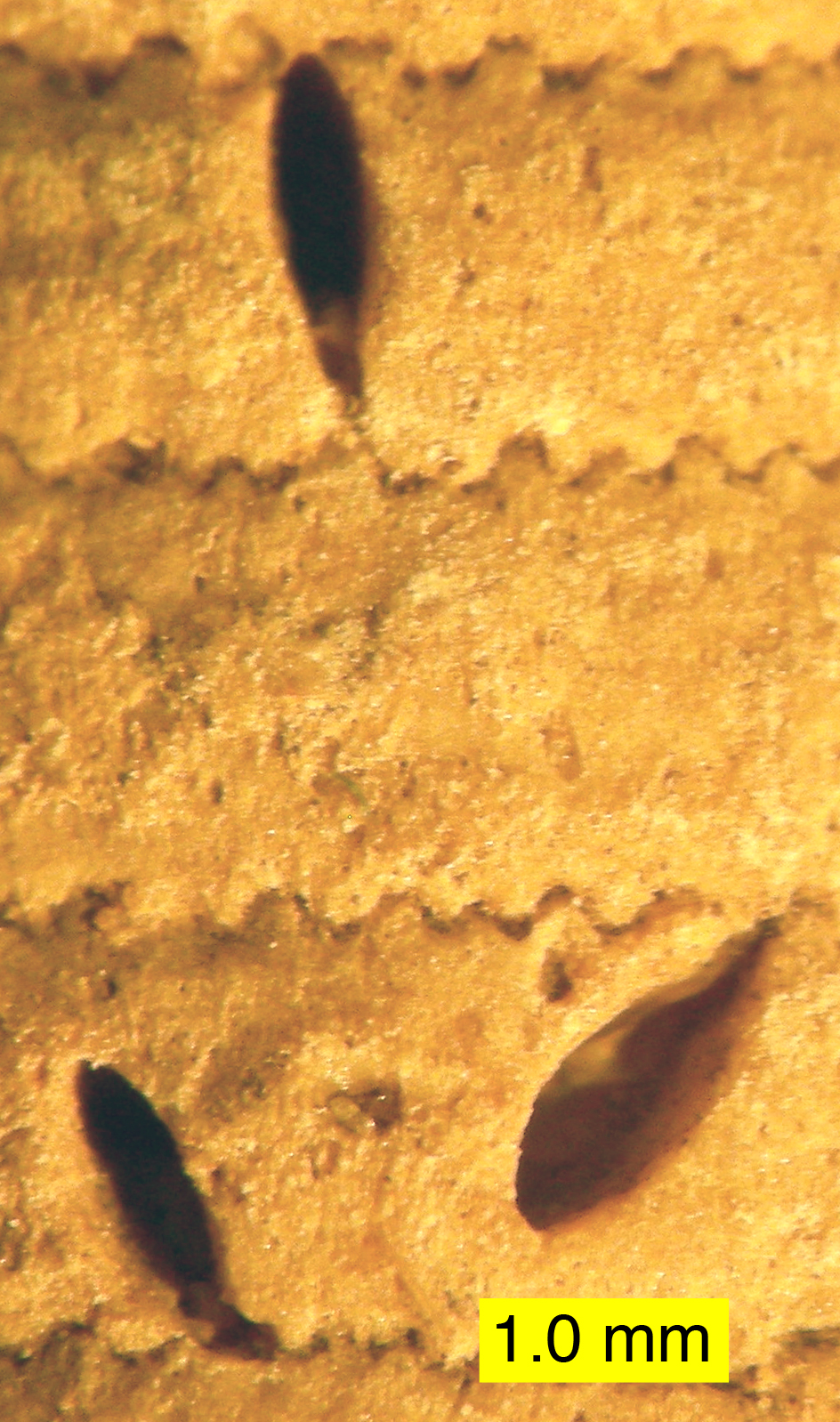 Rogerella elliptica, a barnacle boring in a crinoid stem from the Jurassic (Callovian) Matmor Formation of Hamakhtesh Hagadol, southern Israel.